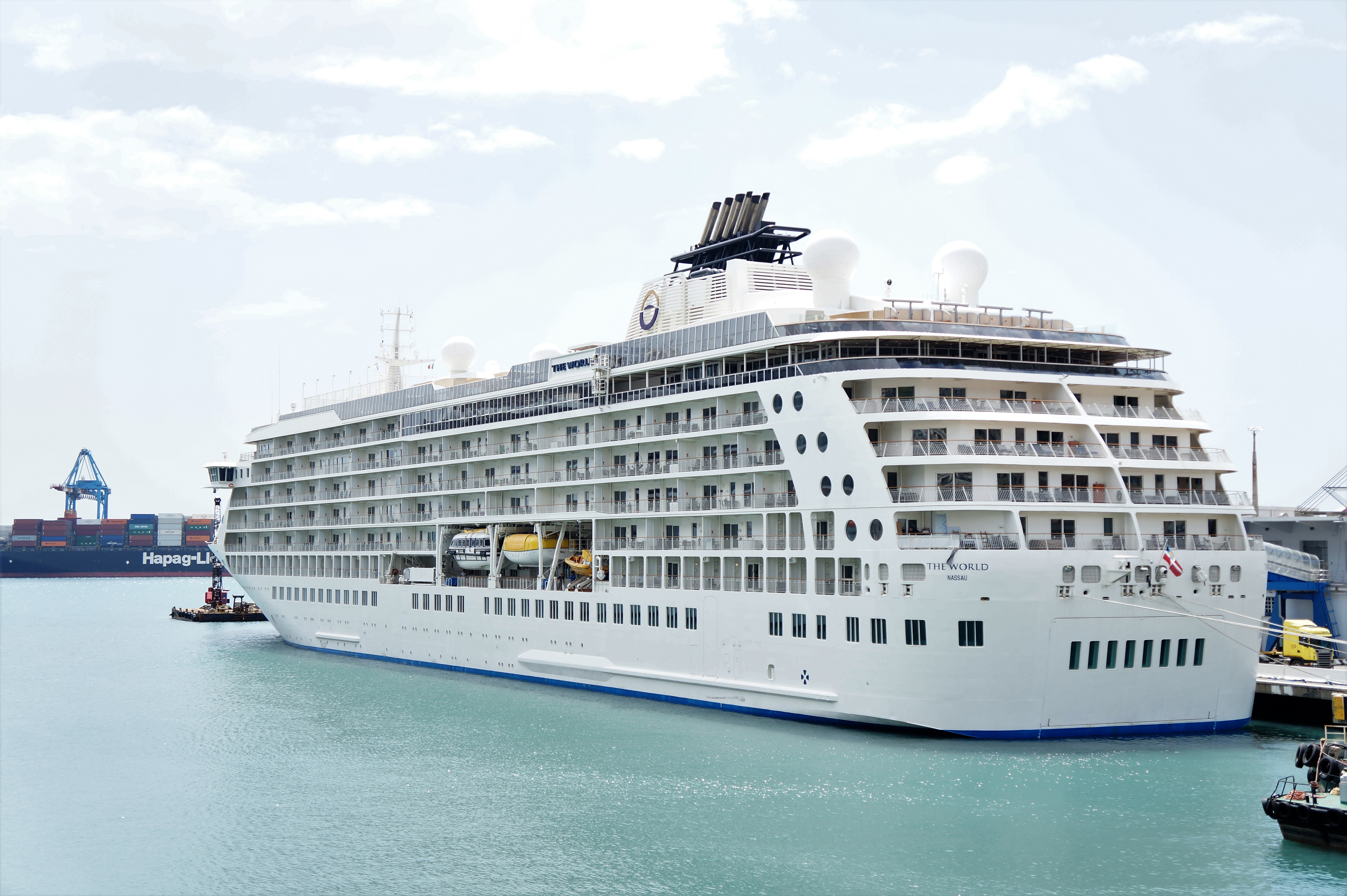 The largest privately owned residential yacht. The World has 165 residences (106 apartments, 19 studio apartments, and 40 studios). It was constructed after an idea from Norwegian shipping magnate Knut U. Kloster. Six restaurants supplement the kitchens or kitchenettes available in most of the residences.